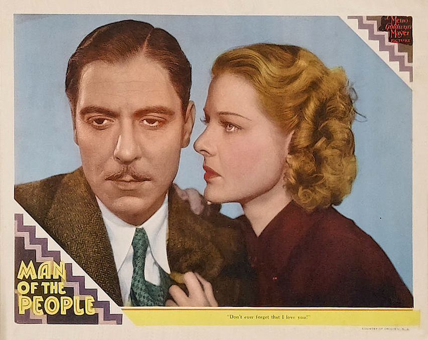 Lobby card for the 1937 film Man of the People